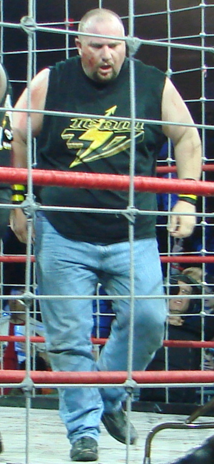 Brother Ray at TNA Lockdown.